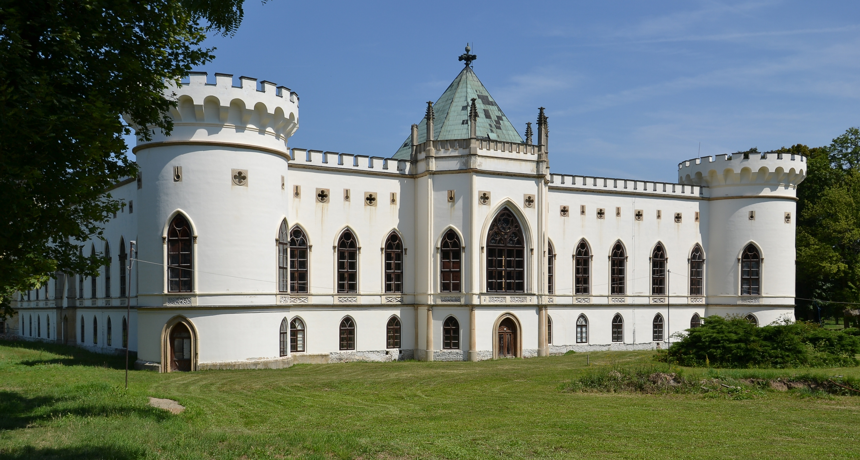 Veľké Uherce (Nagyugróc) - manor house